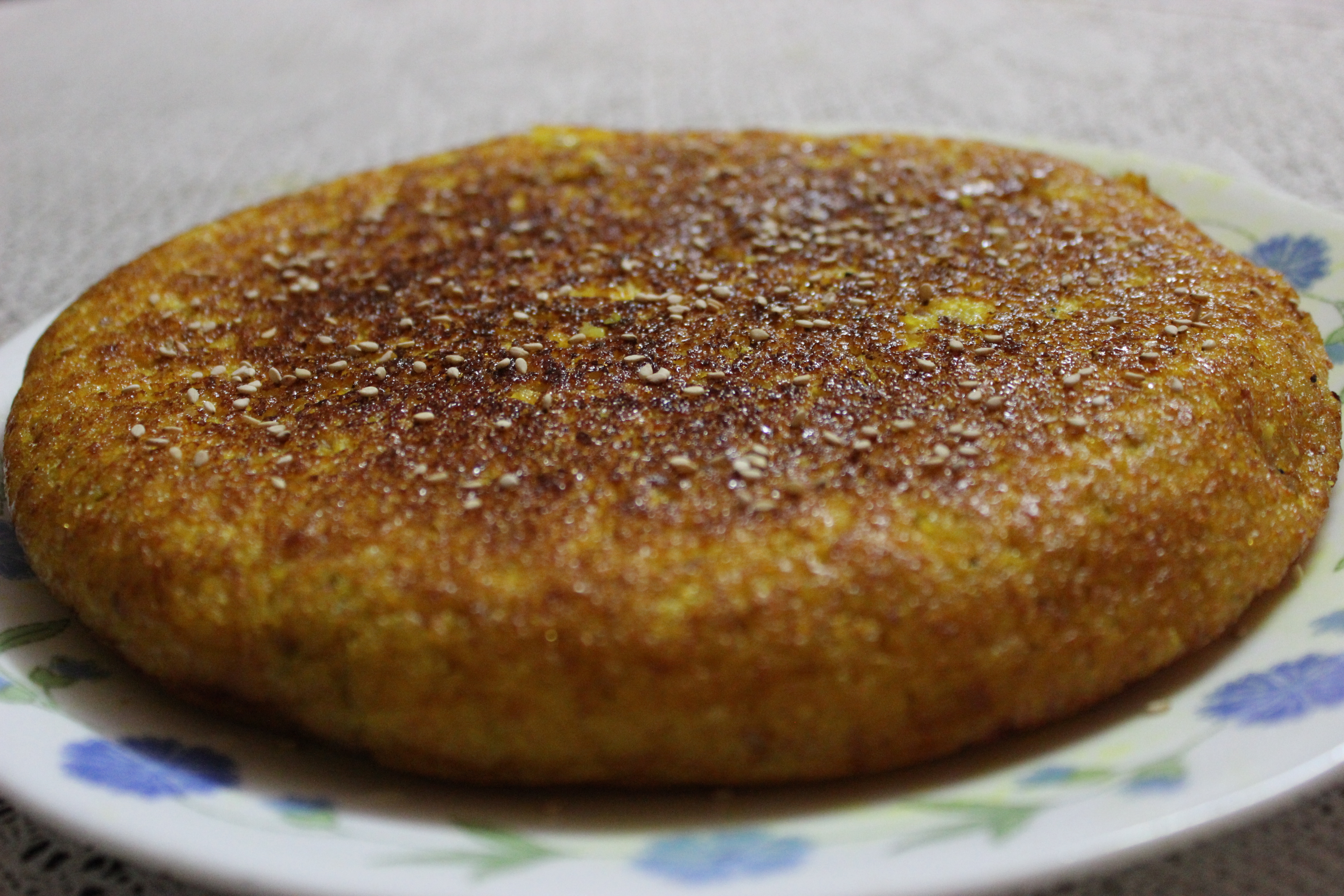 Handavo (pan cake)